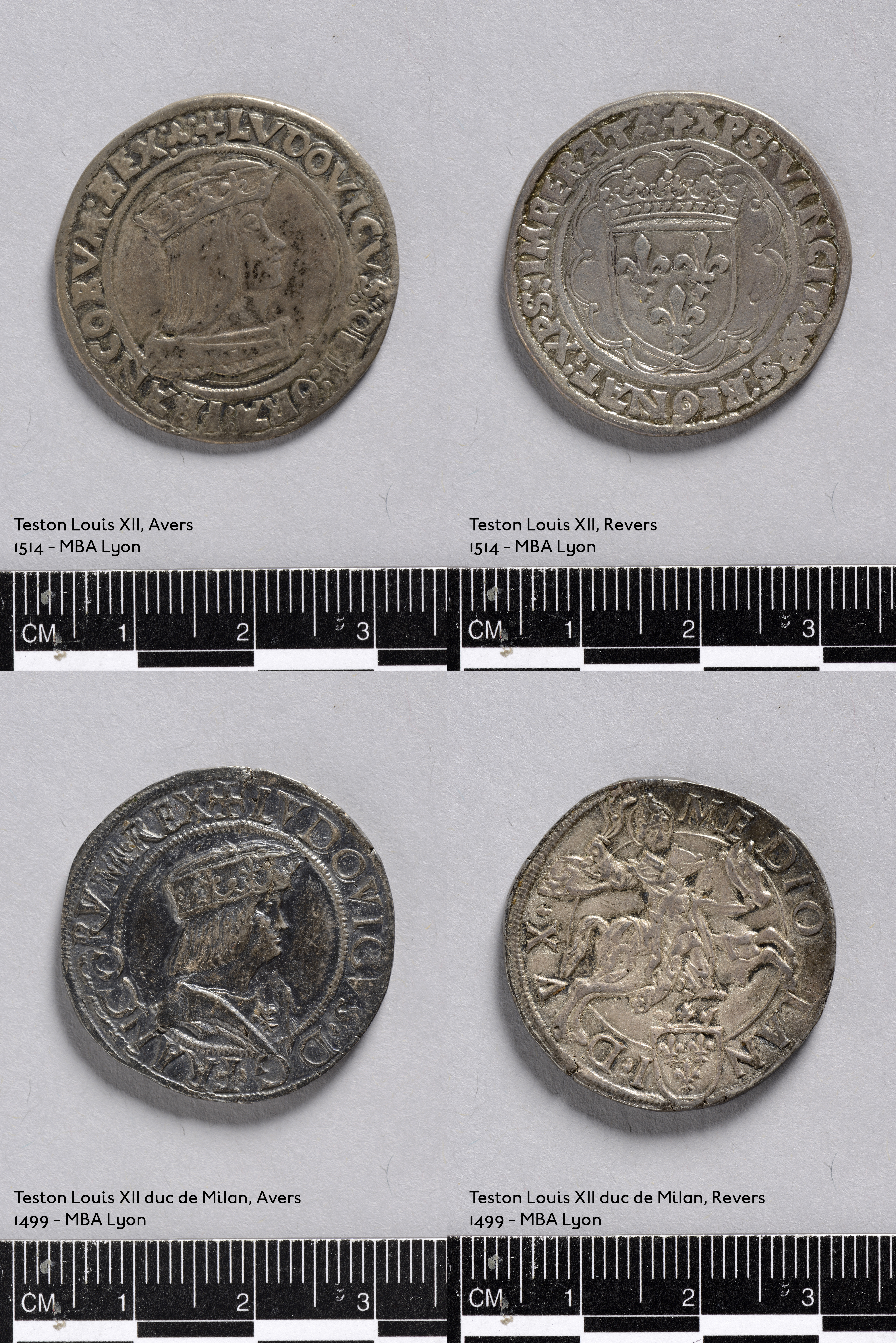 De haut en bas : Teston Louis XII, Avers, 1514 ; Teston Louis XII, Revers, 1514 ; Teston Louis XII duc de Milan, Avers, 1499 ; Teston Louis XII duc de Milan, Revers, 1499